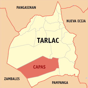 Map of Tarlac showing the location of Capas